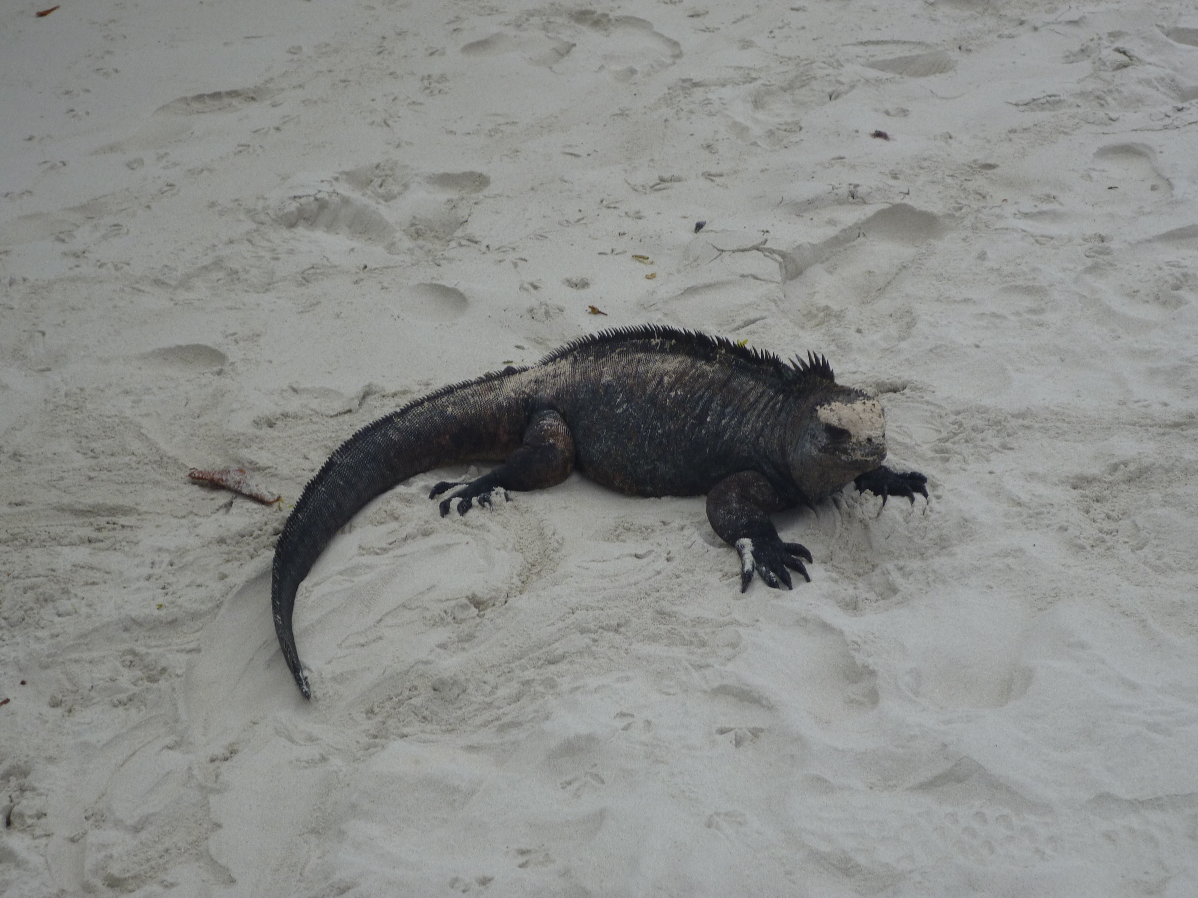 Galapagos Island of Santa Cruz - Tortuga Bay